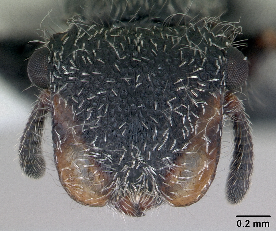 Head view of ant Cephalotes lanuginosus specimen casent0173685.